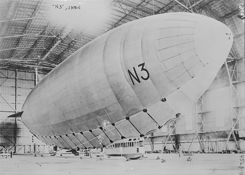 Bain News Service,, publisher. "N3," Japan [1927 May 24] (date created or published later by Bain) 1 negative : glass ; 5 x 7 in. or smaller. Notes: Title and date from unverified data provided by the Bain News Service on the negative. Photo shows balloon at Kasumigaura. Forms part of: George Grantham Bain Collection (Library of Congress). Format: Glass negatives. Repository: Library of Congress, Prints and Photographs Division, Washington, D.C. 20540 USA, General information about the Bain Collection is available at Higher resolution image is available (Persistent URL): Call Number: LC-B2- 4563-11